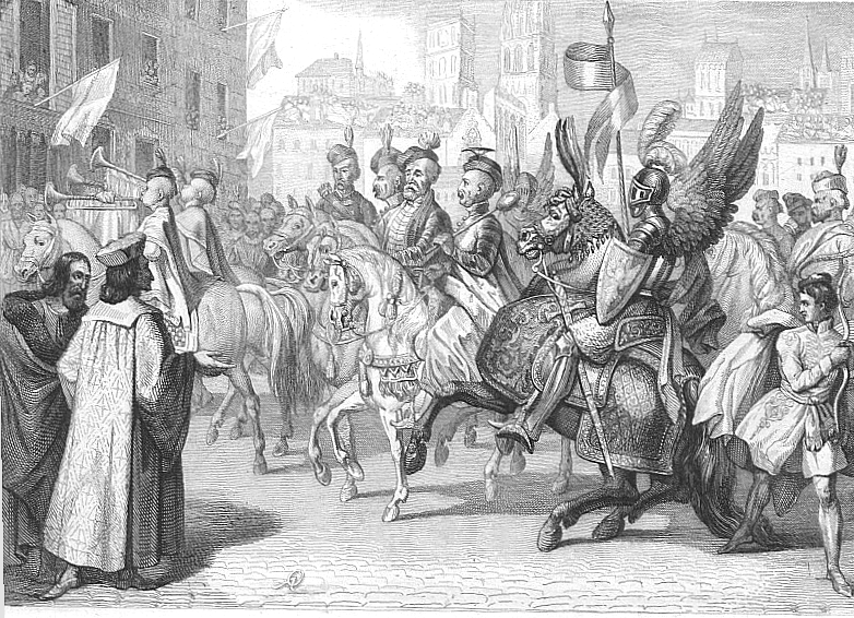 Entrance of Polish senators dispatched for Henry Valois to Paris 1573